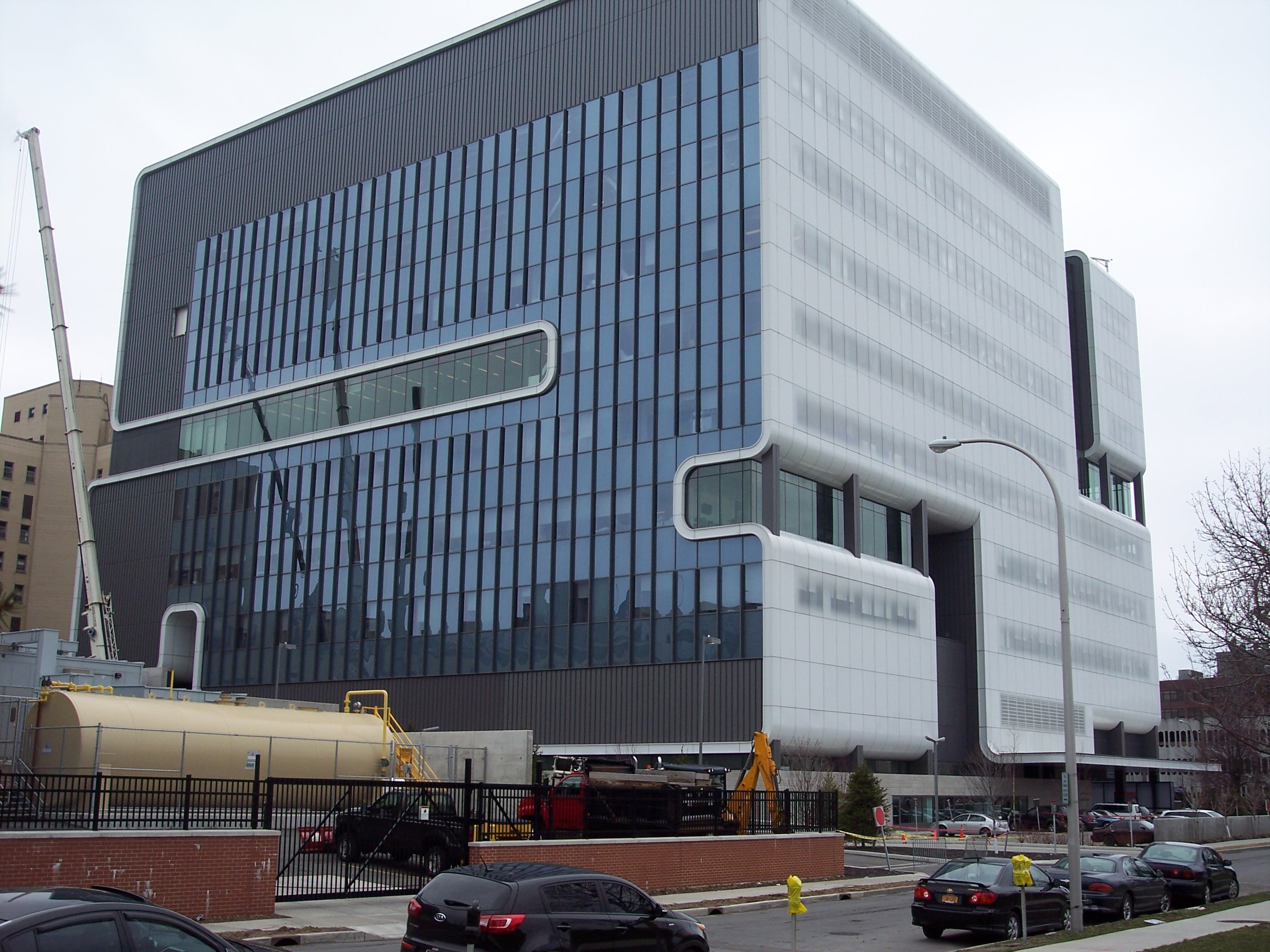 Kaleida Health Gates Vascular Institute/SUNY at Buffalo Clinical Translational Research Center, Ellicott and Goodrich Streets, Buffalo, NY